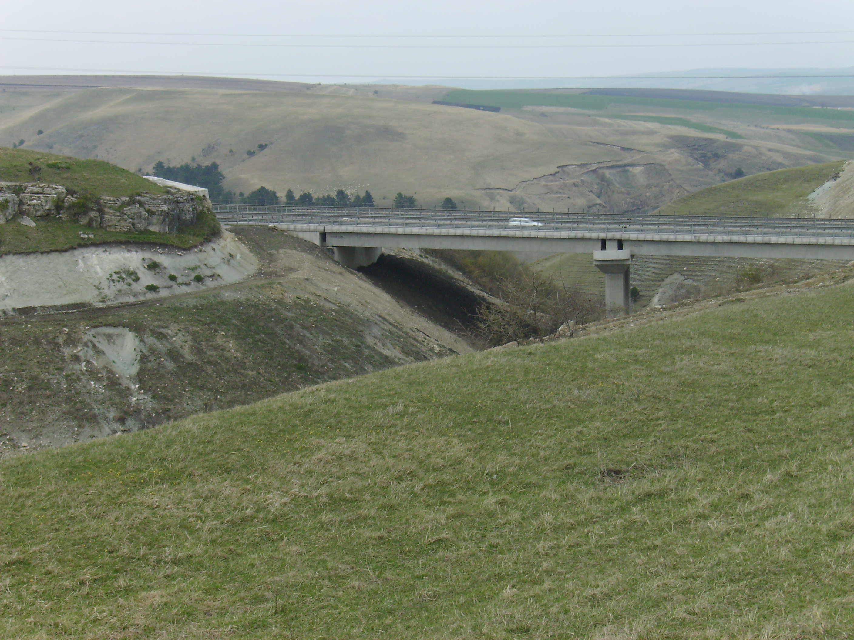 A3 motorway in Cheile Turului, in Transylvania, Romania